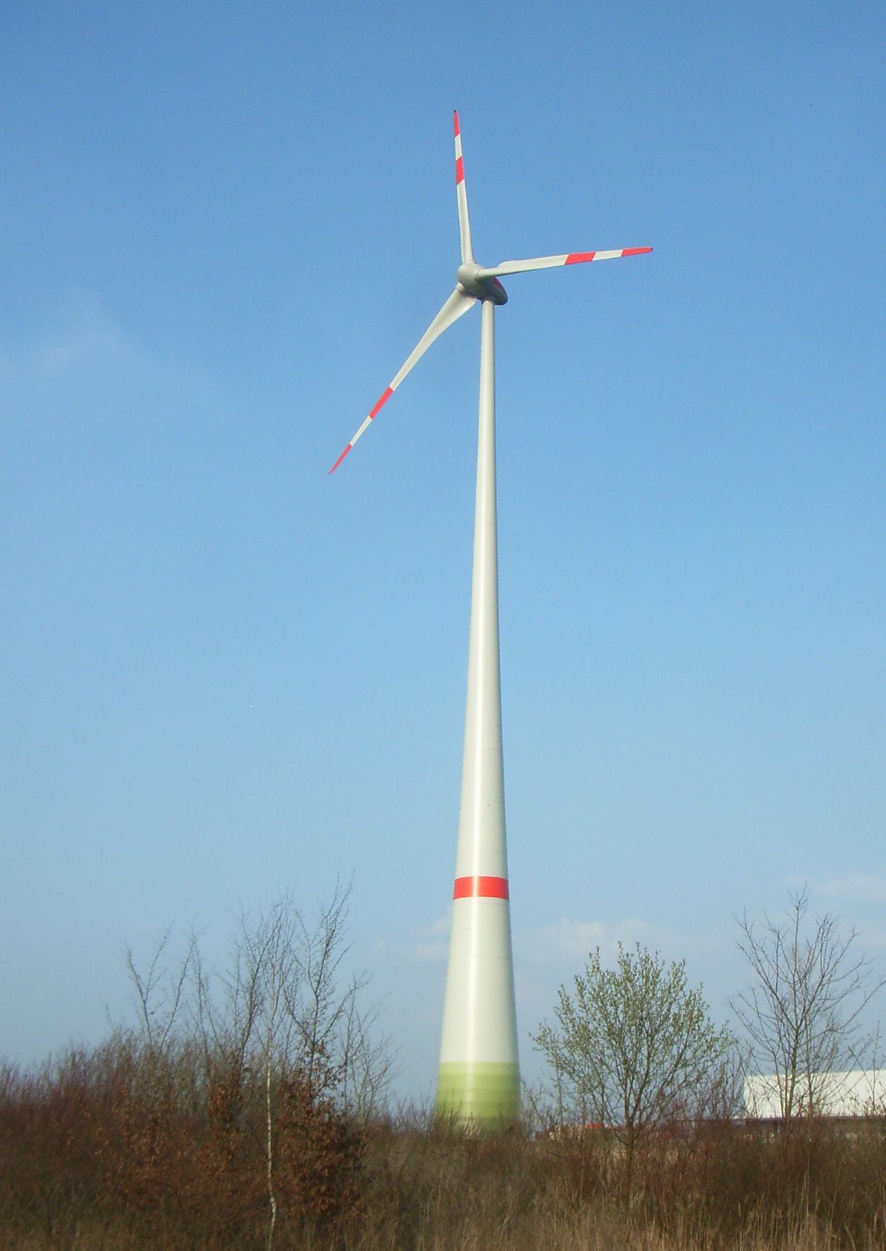 Wind turbine in Berlin-Pankow